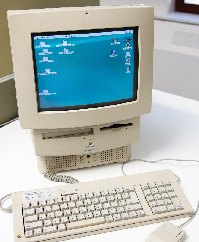 Front view of a Macintosh Performa 580CD